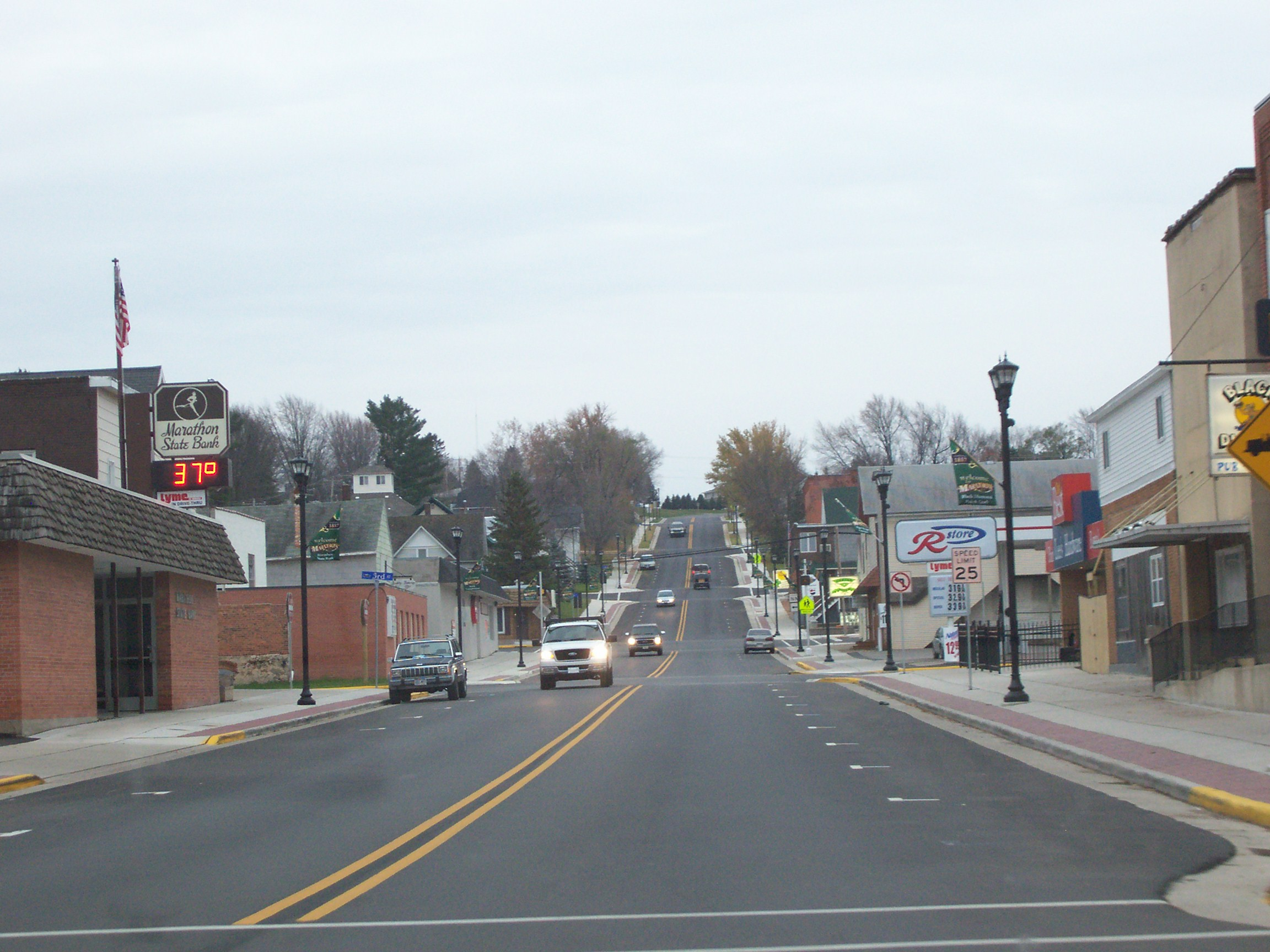 Looking south at downtown Marathon City, Wisconsin, USA on Wisconsin Highway 107.